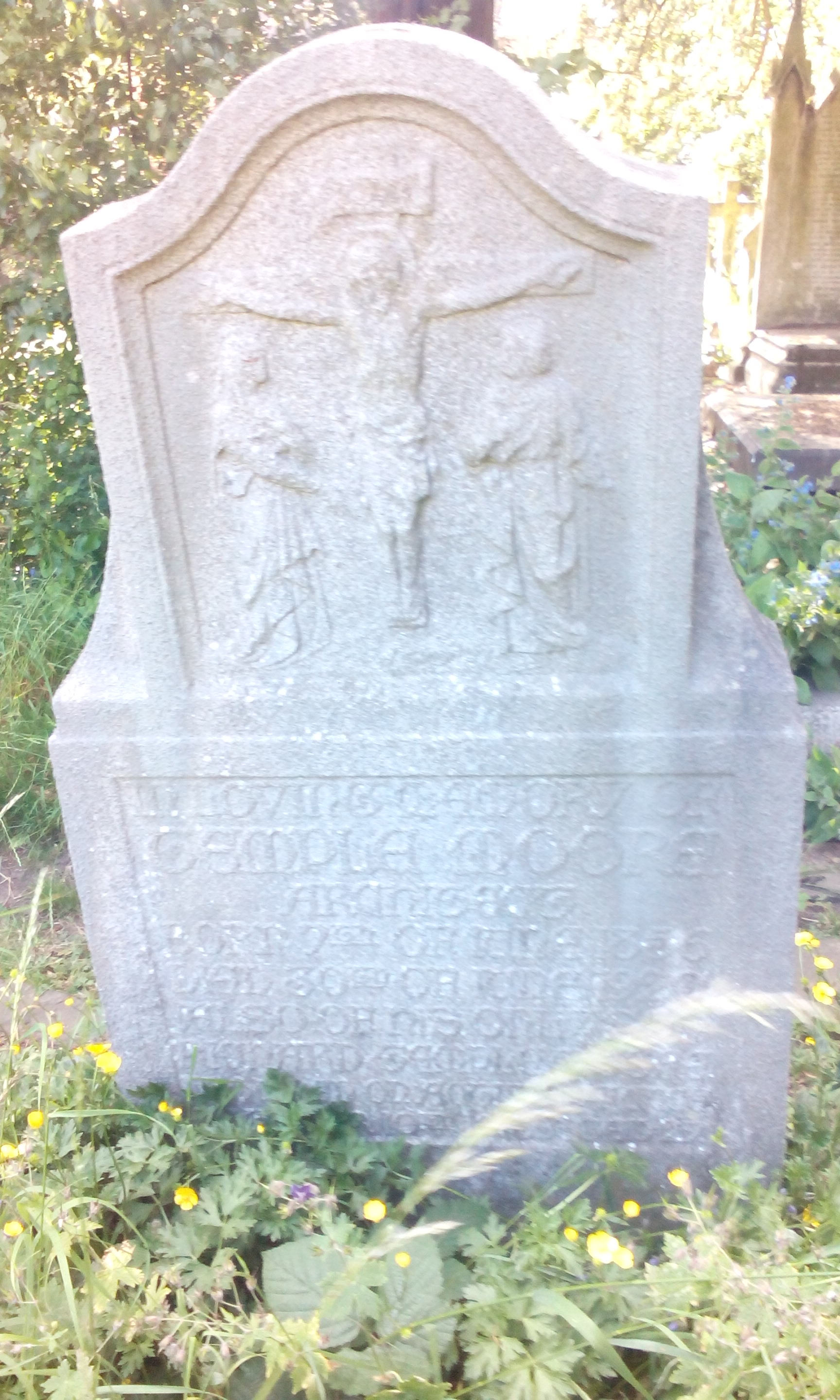 Tombstone of Temple Lushington Moore, north churchyard extension, St John at Hampstead.jpg. Also features his son Richard Moore.